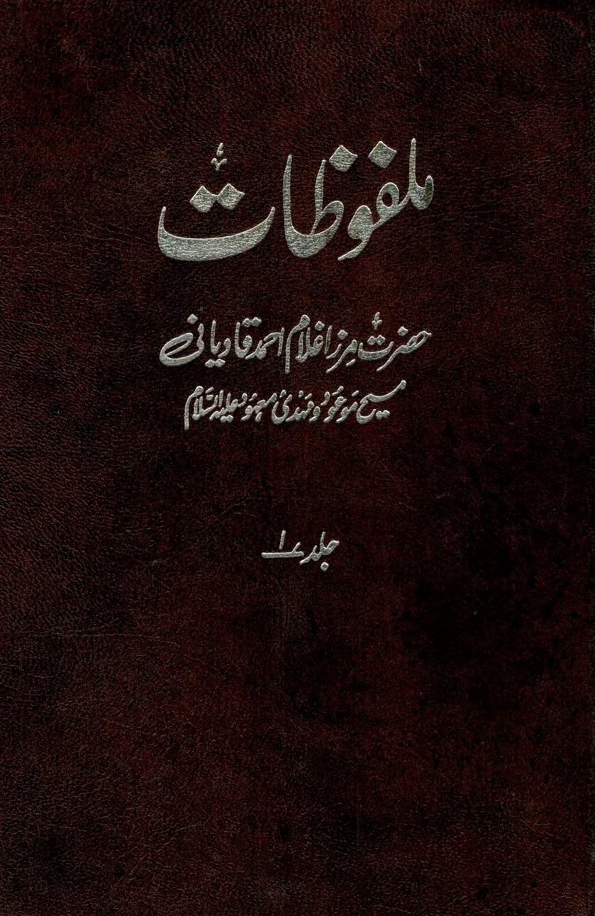 Malfuzat, Volume I, 1984 reprint edition, (hardbound) published by Nazarat Isha'at London printed by Unwin brothers Ltd, Woking, Surrey